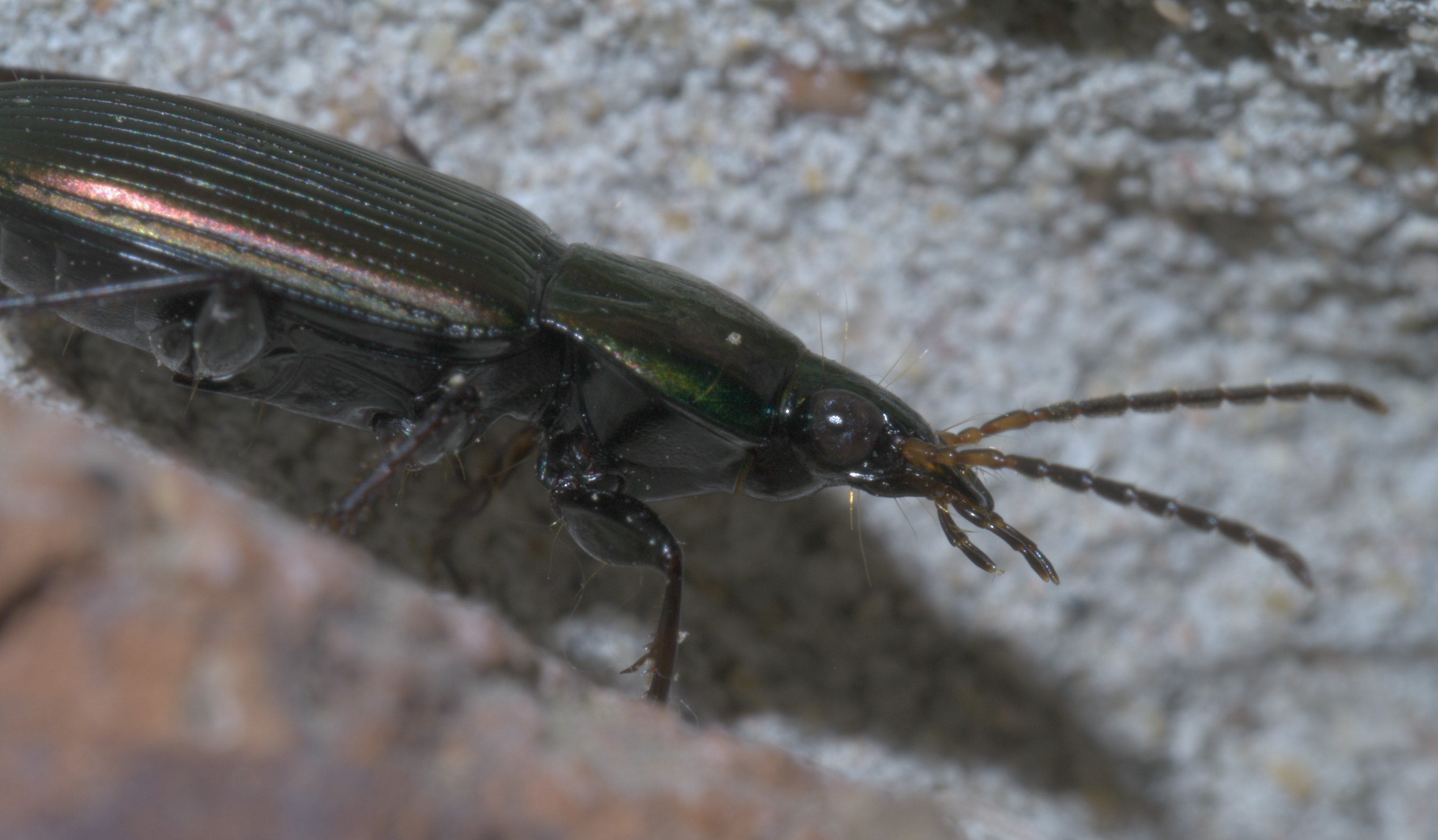 Poecilus chalcites, Tribe: Woodland Ground Beetles, ID Confidence: 87